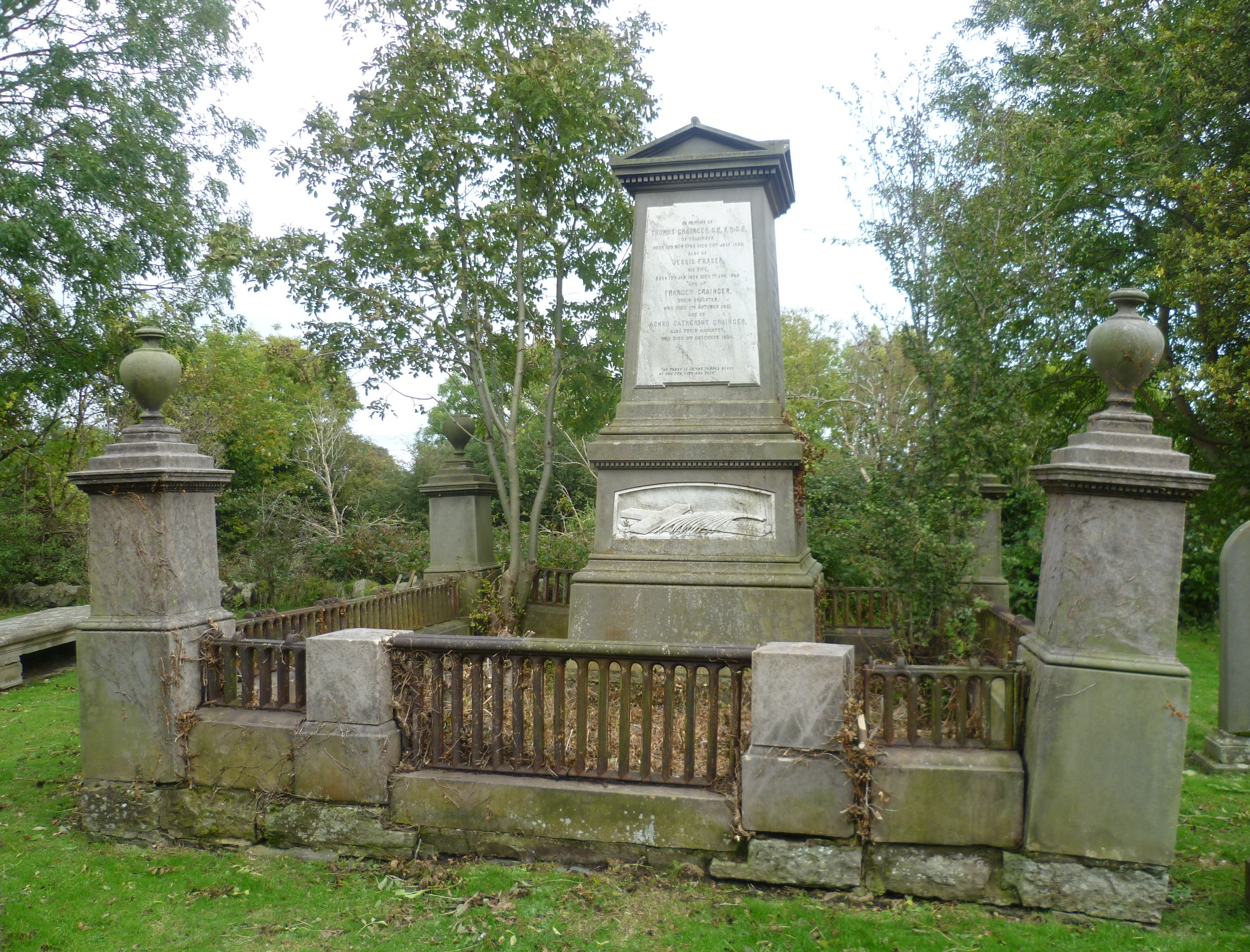 Grave of Thomas Grainger, Gogar Kirkyard